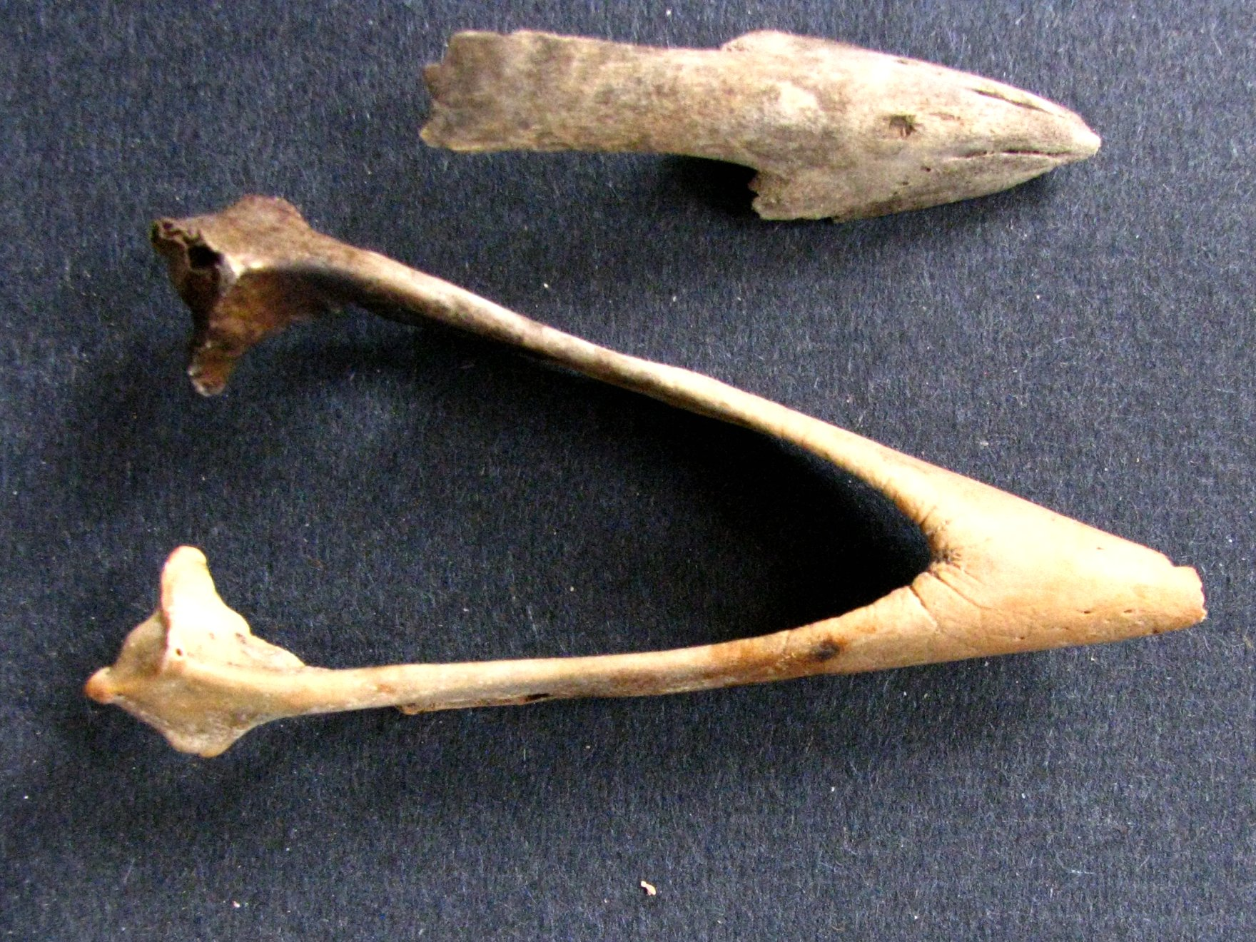 Lower mandible of the Deep-billed crow (Corvus impluviatus) and the tip of a rostrum of the same species. These specimens came from the Barber's Point sinkholes, Oʻahu, Hawaiian Islands. Identified by the late Alan C. Ziegler in 1992.